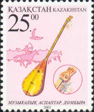 Stamp of Kazakhstan